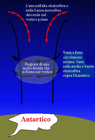 Polar vortex